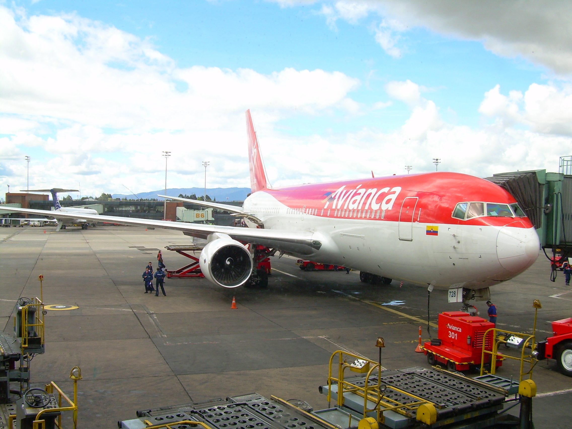 Avianca Boeing 767-200 parked at El Dorado International Airport, Bogota, Colombia